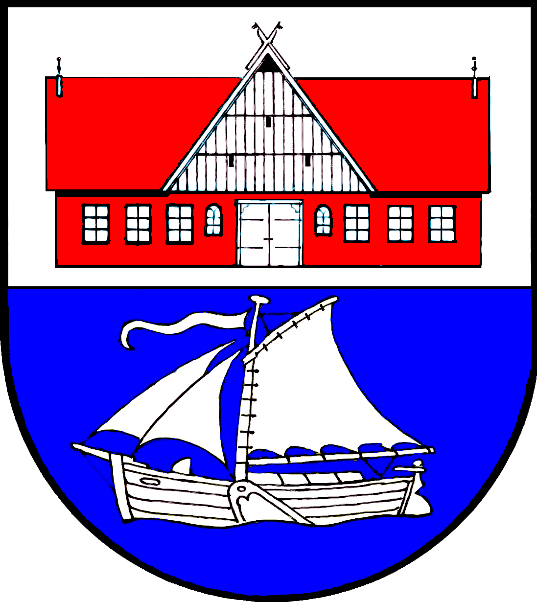 Coat of arms of the municipality Wewelsfleth in Schleswig-Holstein, Germany.